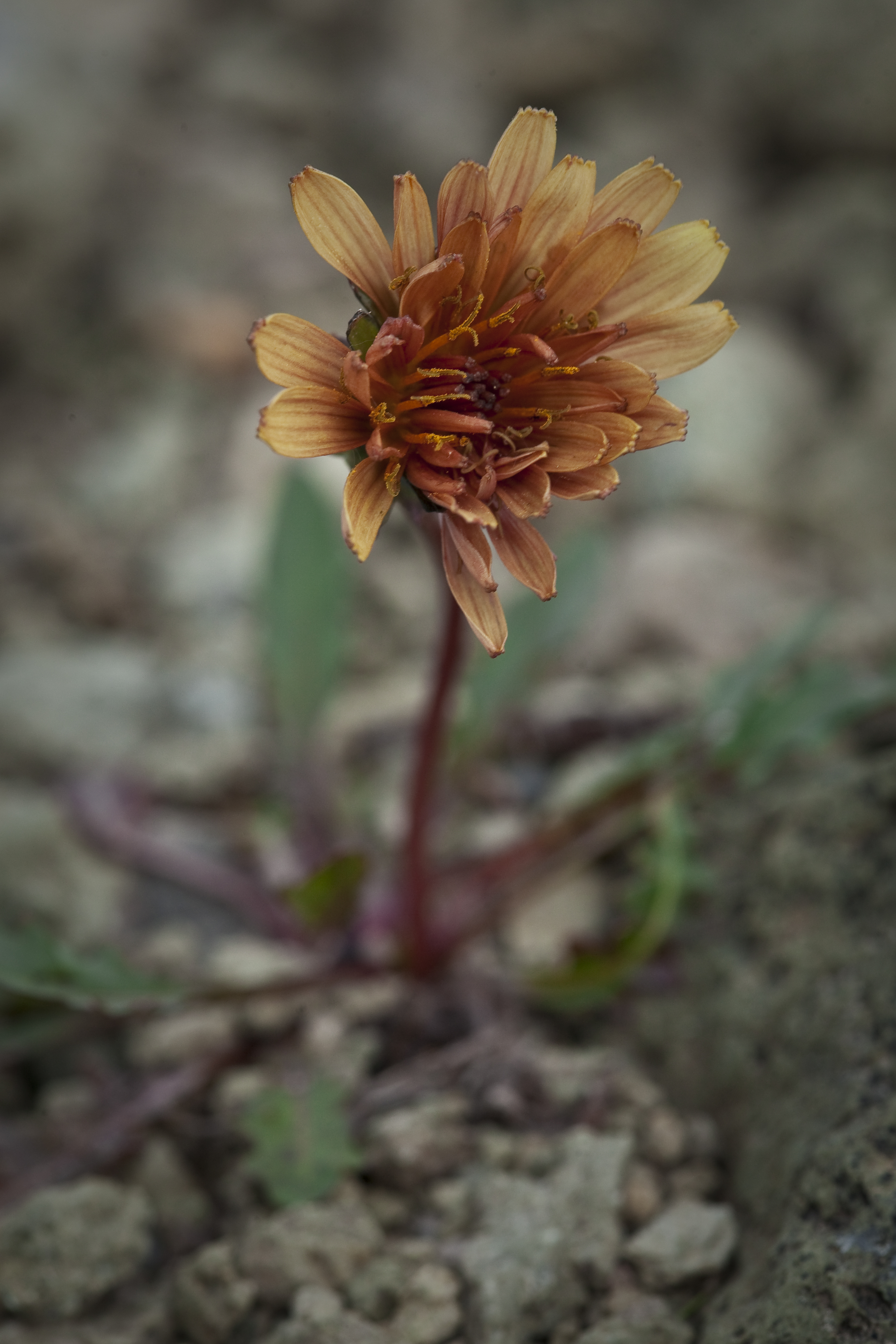 Taraxacum carneocoloratum, Denali National Park and Preserve, AK, USA